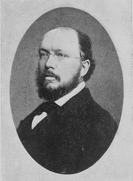 Viktor Merz (1839-1904)